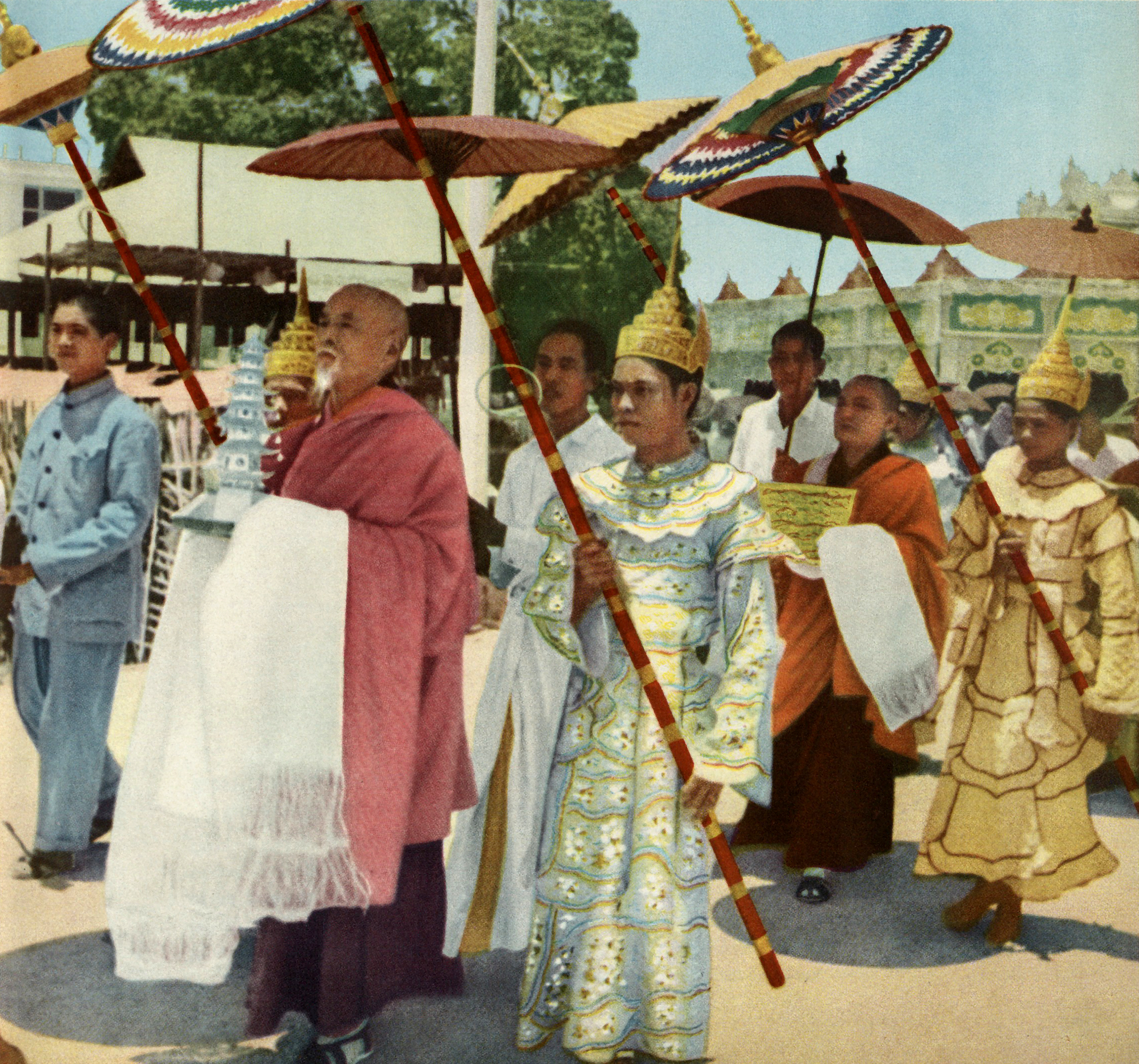 Sherab Gyatsho, leader of a delegation of the Buddhist Association of China on a visit to Burma, during a procession on April 11, 1955. Presented were a small stupa, a set of the Chinese Tripitaka and an alm's bowl.